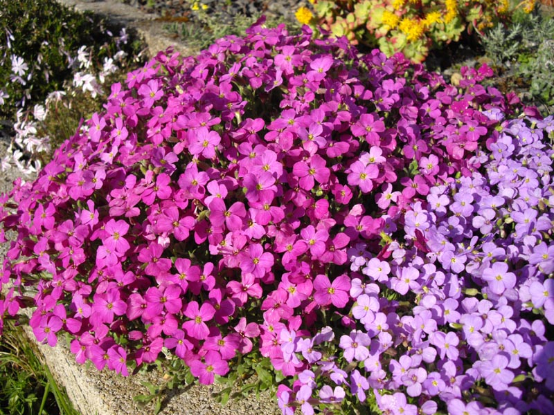 Aubrieta 'Royal Red'